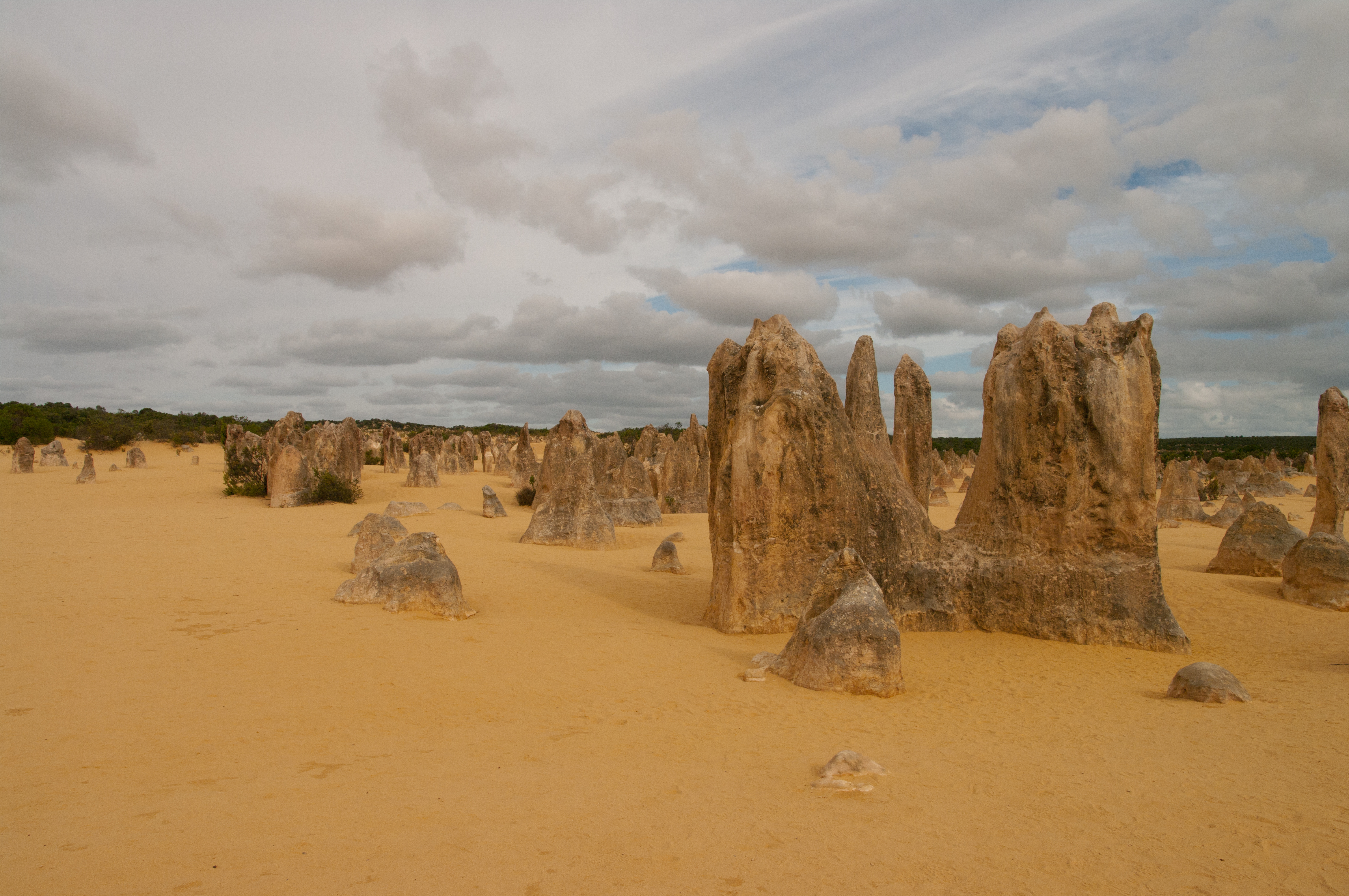 The Pinnacle Desert, Nambung National Park.